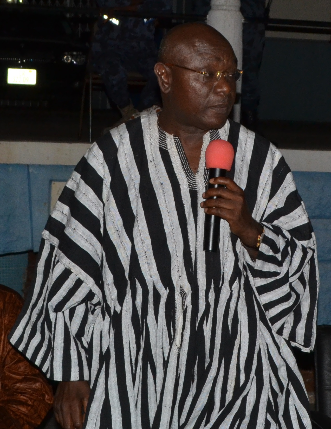 Edward Doe Adjaho, the Speaker of Parliament of Ghana speaking at the 2014 end-of-year get-together of the Parliamentary Press Corps.